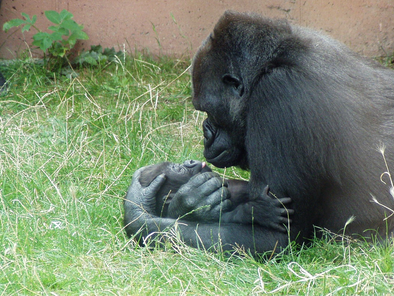 Gorilla gorilla gorilla - Kijivu and her baby Tatu at Prague Zoo